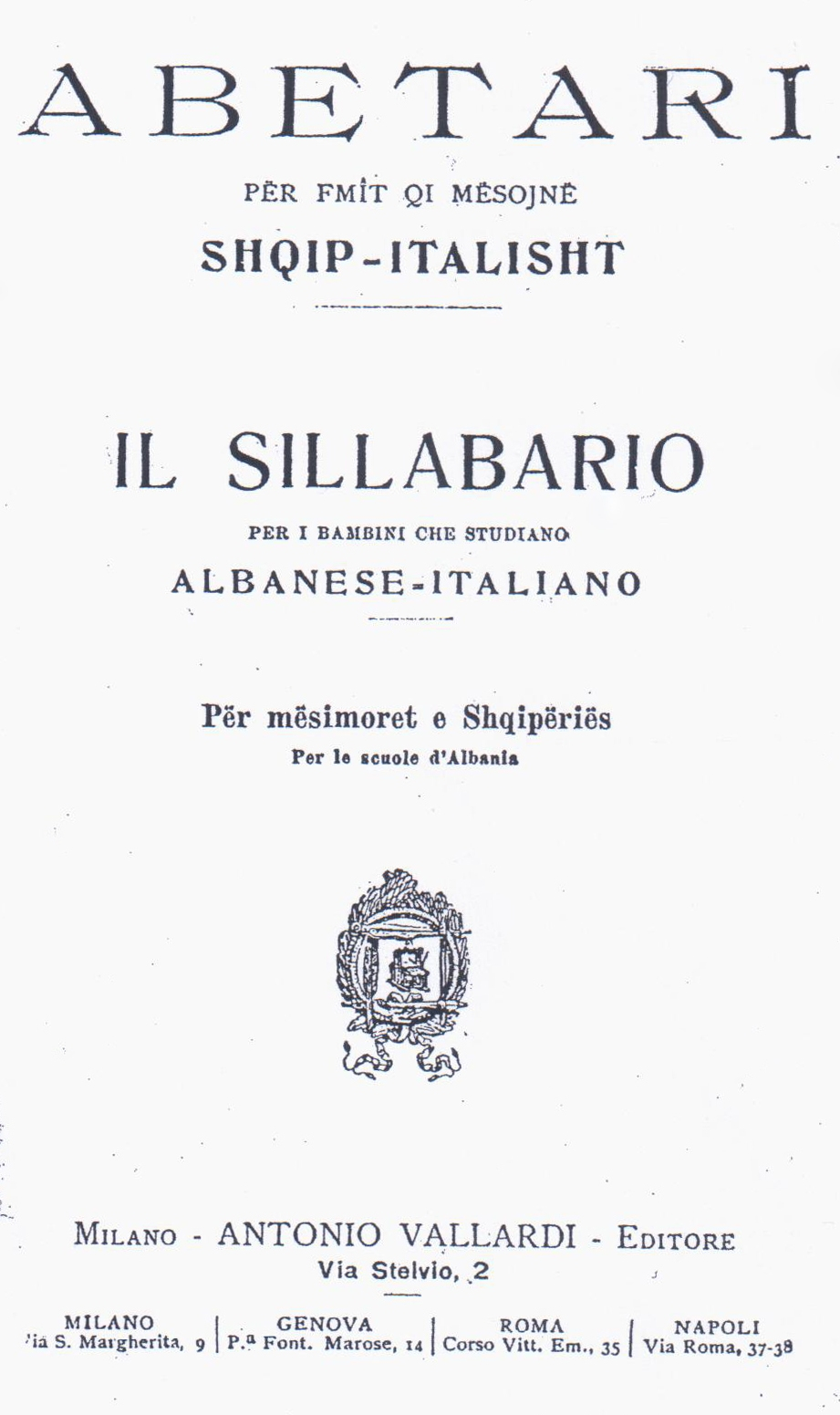 ABC-book Albanian-Italian